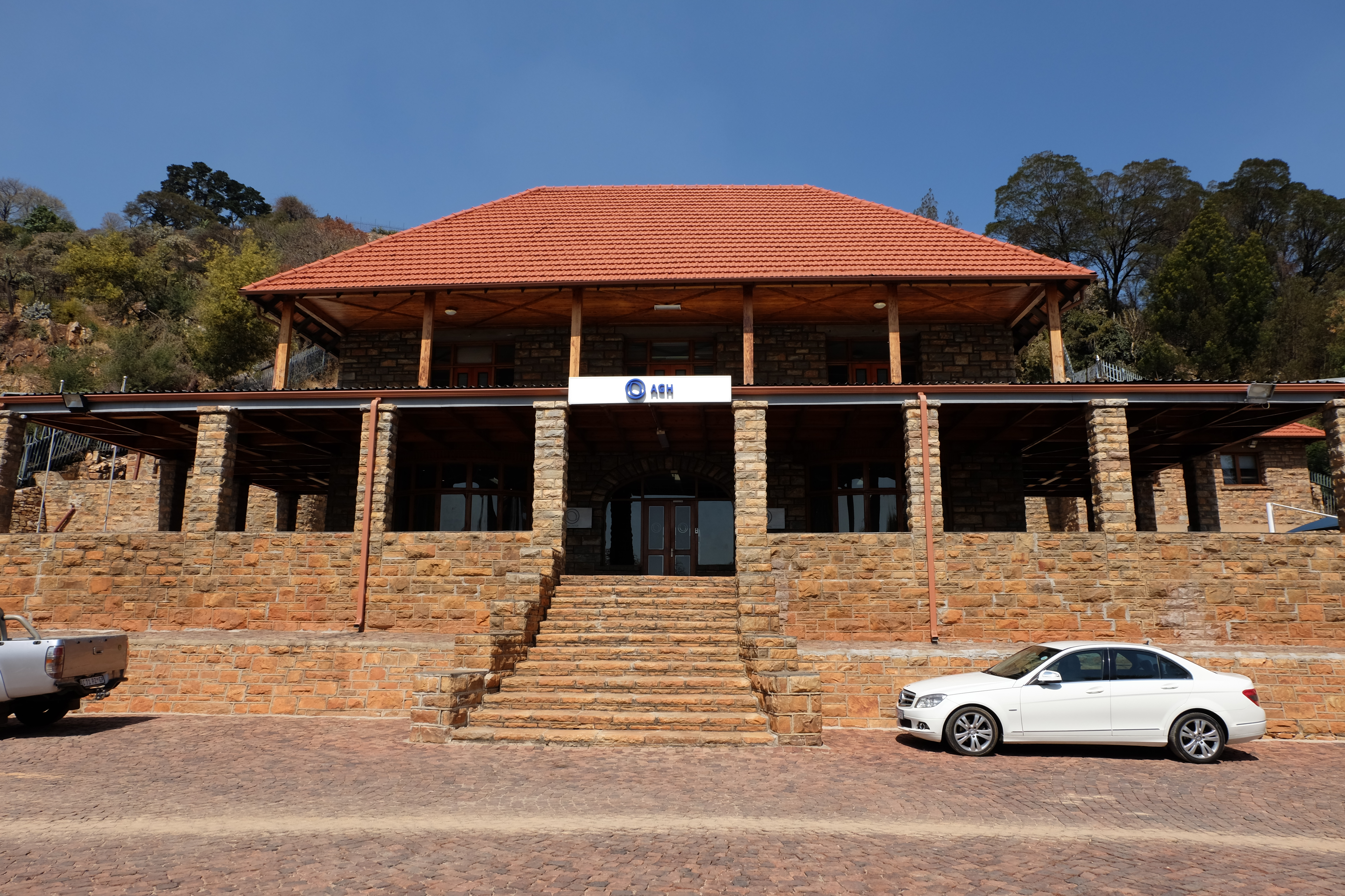 This is a building by 36 houghton drive in Sandton Johannesburg, which was built in the early 19th century.